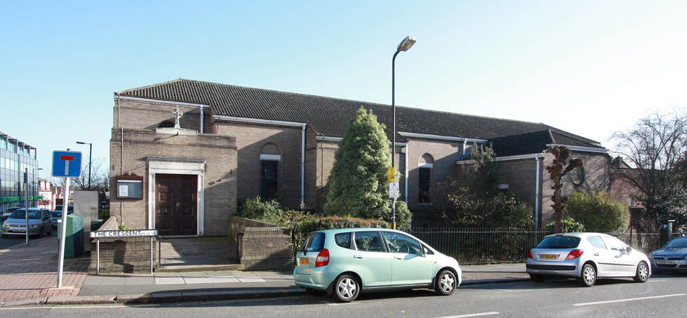 Christ the King Roman Catholic Church, Arthur Road, Wimbledon Park